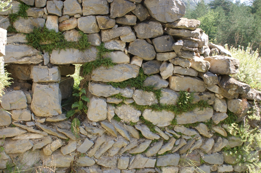 Ruins of the monastery of San Sebastian Sull. Ninth century. Pre-Romanesque. Saldes (Barcelona).